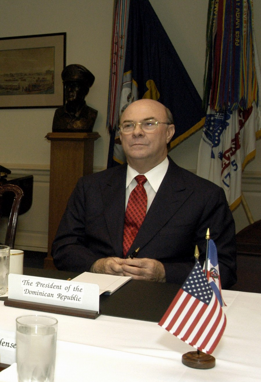 Dominican Republic President Rafael Hipolito Mejia Dominguez (right) meets with Secretary of Defense Donald H. Rumsfeld (foreground) in the Pentagon on May 21, 2003. Dominican Secretary of Foreign Affairs Francisco Guerrero Prats (center) and Secretary of Tourism Rafael Subervi Bonilla (left) joined in the discussion of bilateral and regional security issues.